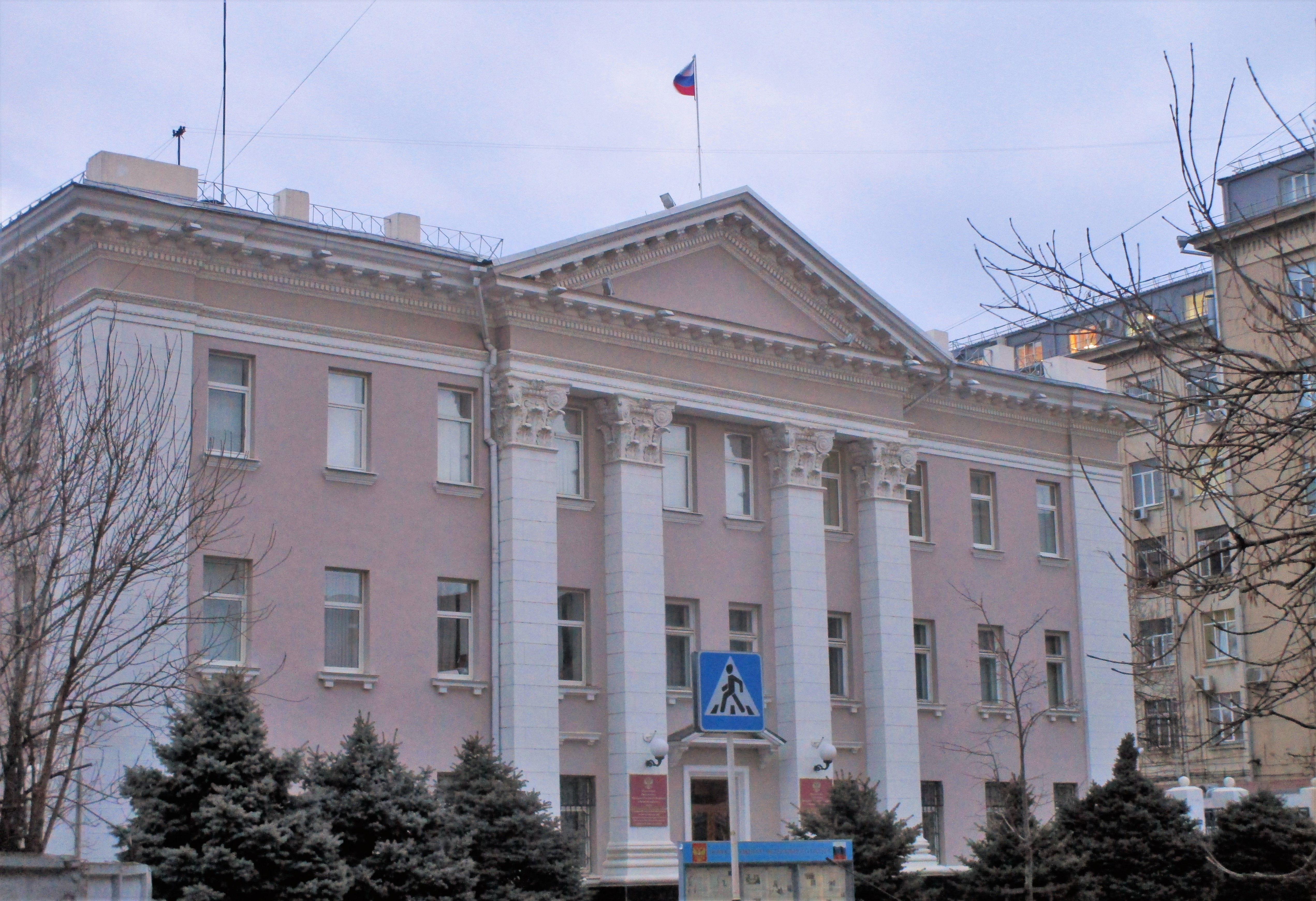 Building of Administration of Western inner-district of Krasnodar